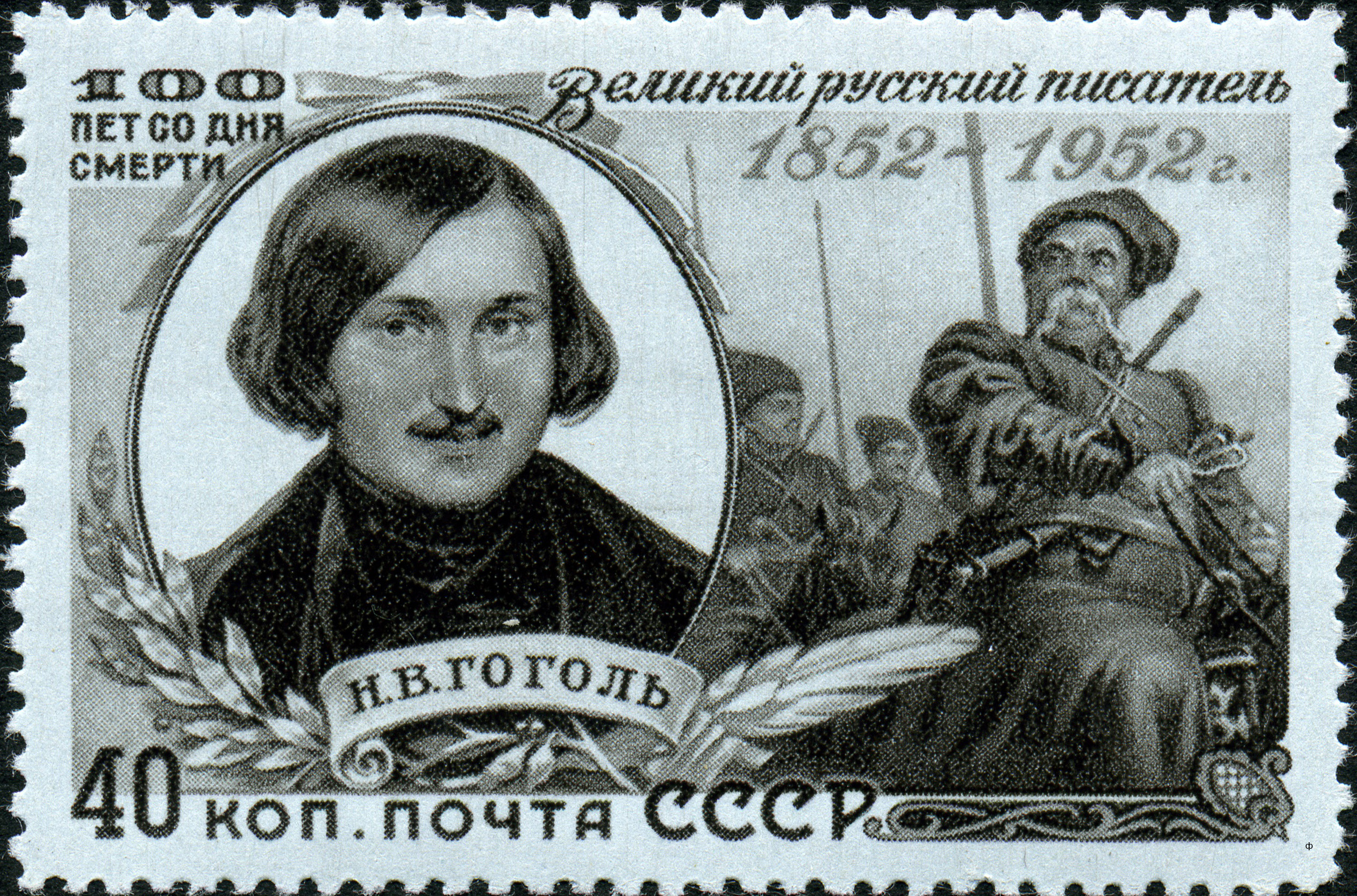 The stamp of the USSR devoted to the 100 anniversary from the date of death N.V.Gogol, 1952